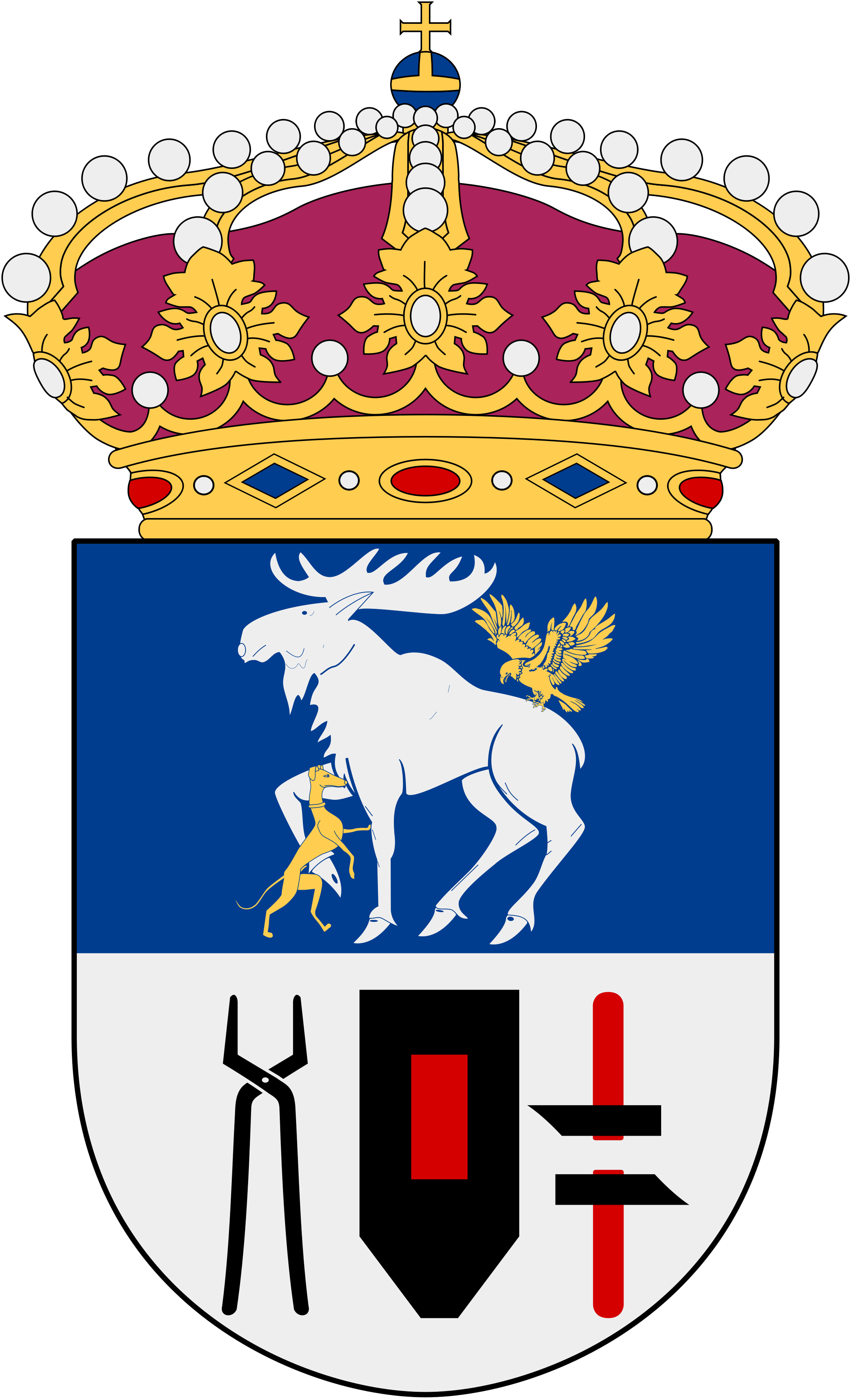 Coat of arms of the county administrative board of Jämtland, Sweden. This representation of a coat of arms is potentially different from the one used by the armiger (municipality or organisation) in question. = ⇑“Sable, a lionrampant or” This coat of arms was drawn based on its blazon which – being a written description – is free from copyright. Any illustration conforming with the blazon of the arms is considered to be heraldically correct. Thus several different artistic interpretations of the same coat of arms can exist. The design officially used by the armiger is likely protected by copyright, in which case it cannot be used here.Individual representations of a coat of arms, drawn from a blazon, may have a copyright belonging to the artist, but are not necessarily derivative works. Further information: Commons:Coats of arms and Template:Coa blazon